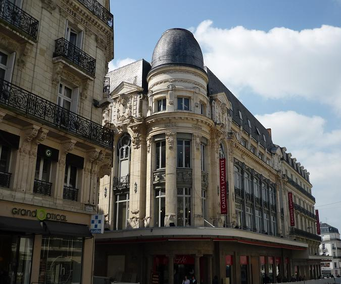 Nouvelles Galeries, Angers